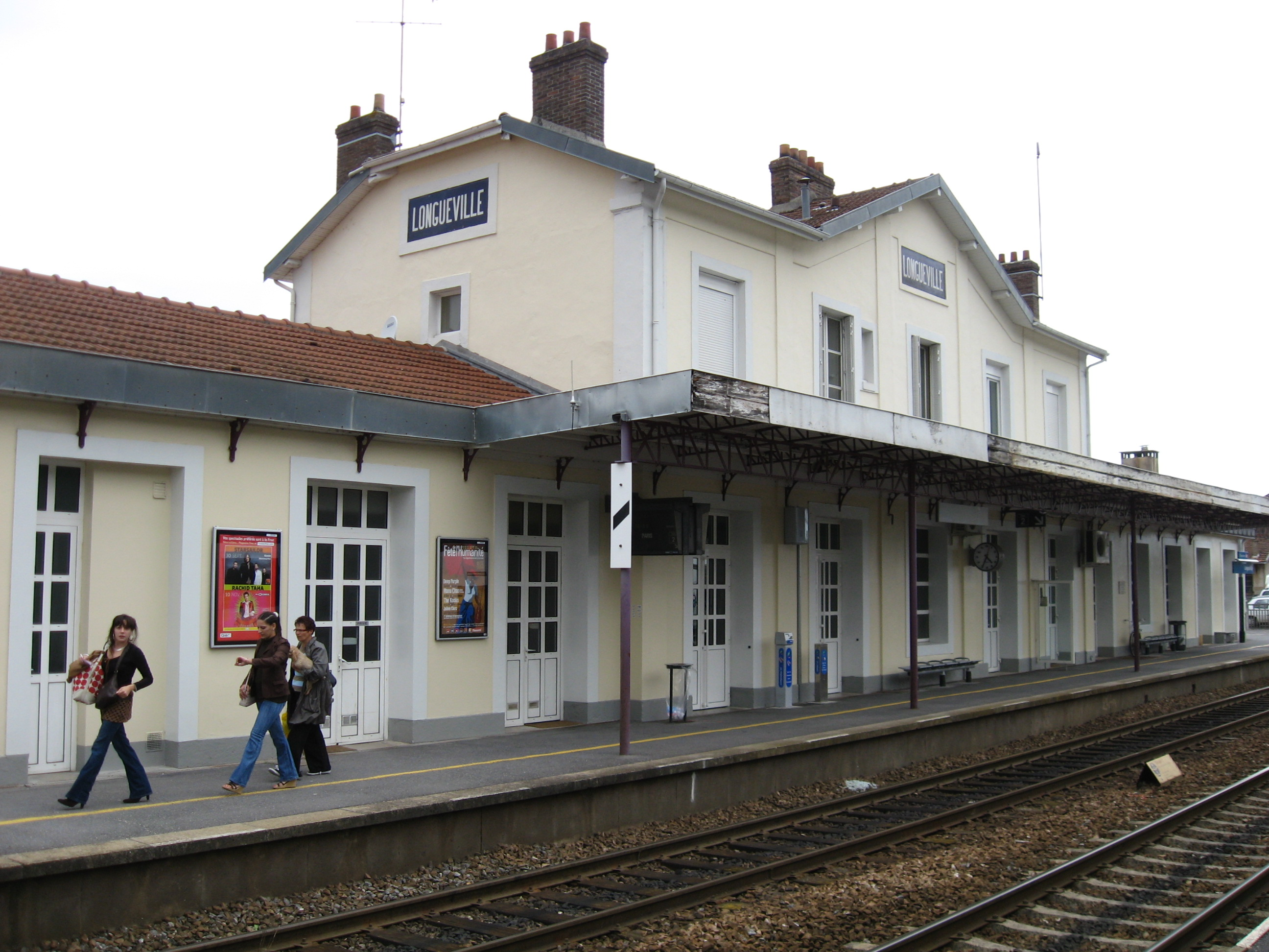 Longueville station on mainline to Basel and the Francilien P-line.